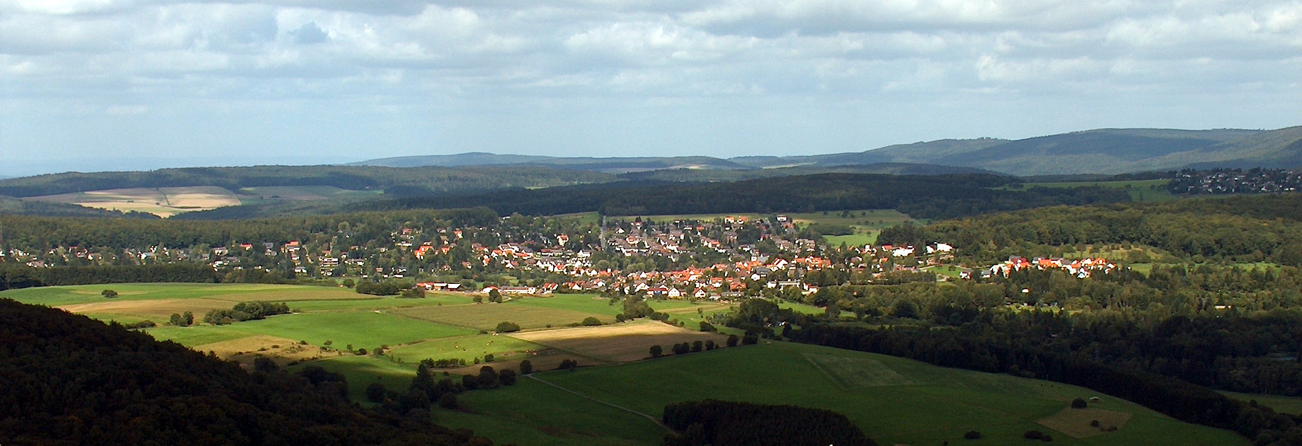 Panorama of Schloßborn, Germany